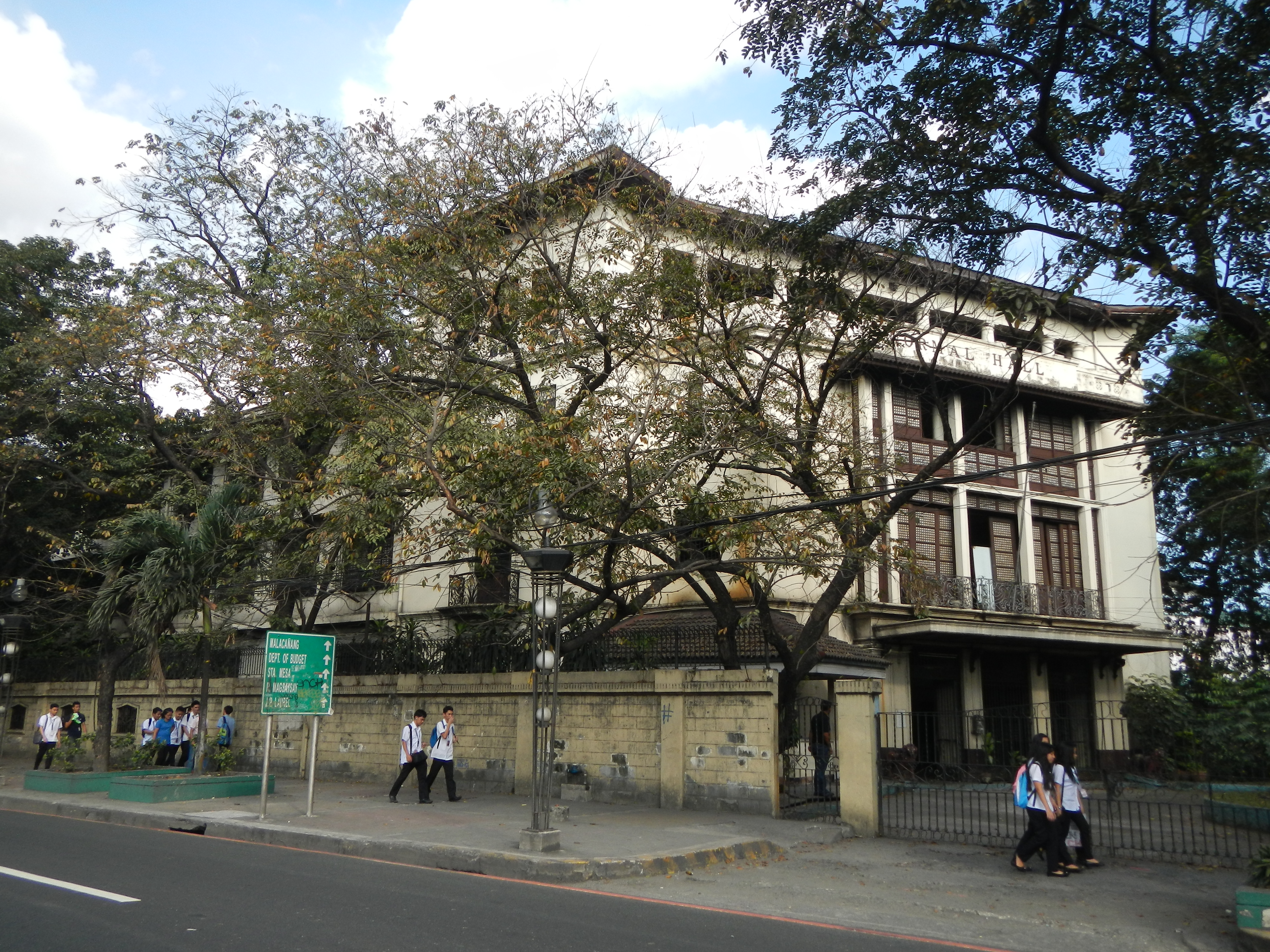 Upload Wizard photos of - Philippine Normal University [1] of 1901, and Jones Bridge, view of Binondo and Santa Cruz, Manila skyline and the Pasig River.